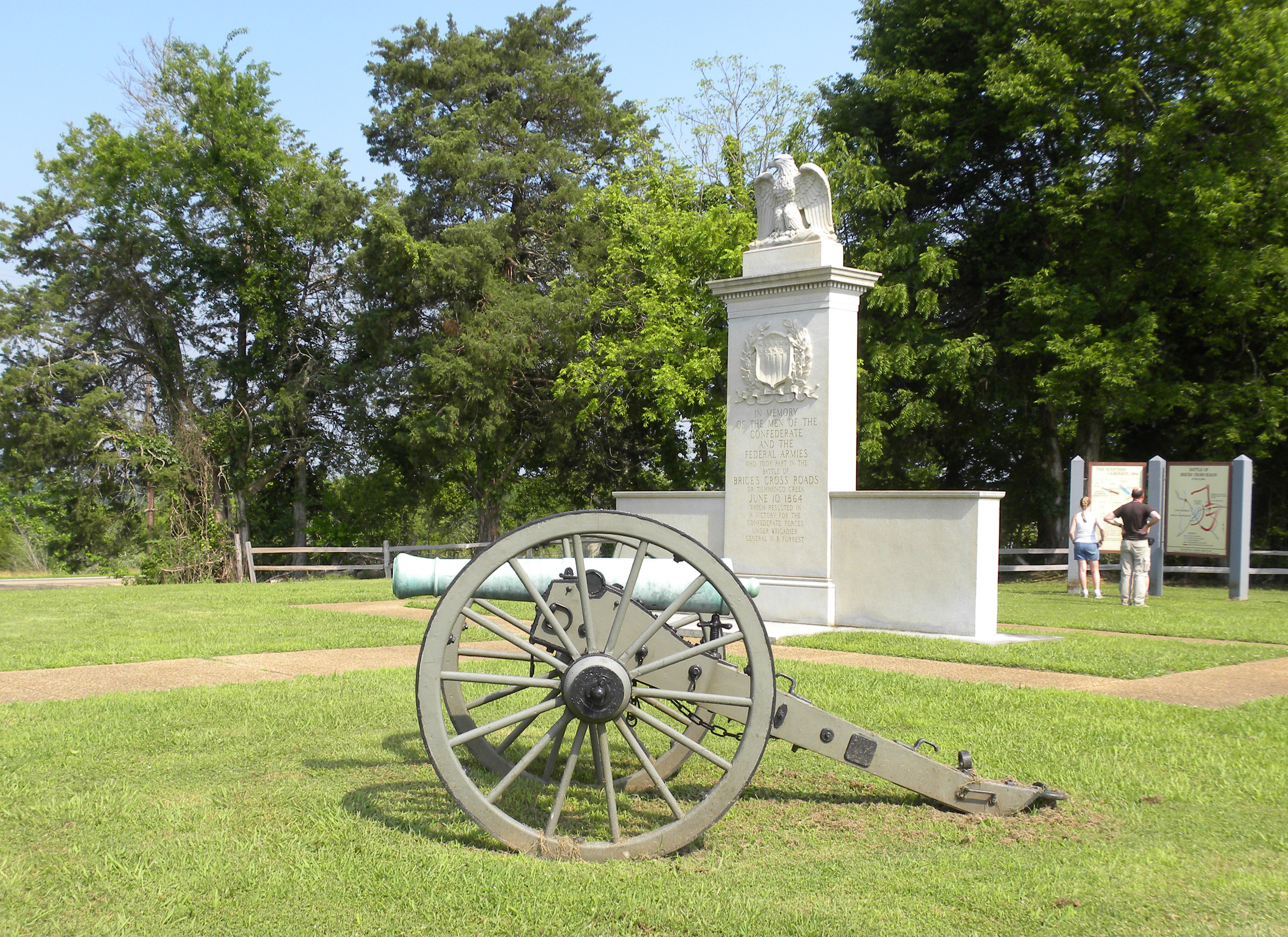 Monument at Brice's Crossroads Battlefield, Mississippi.